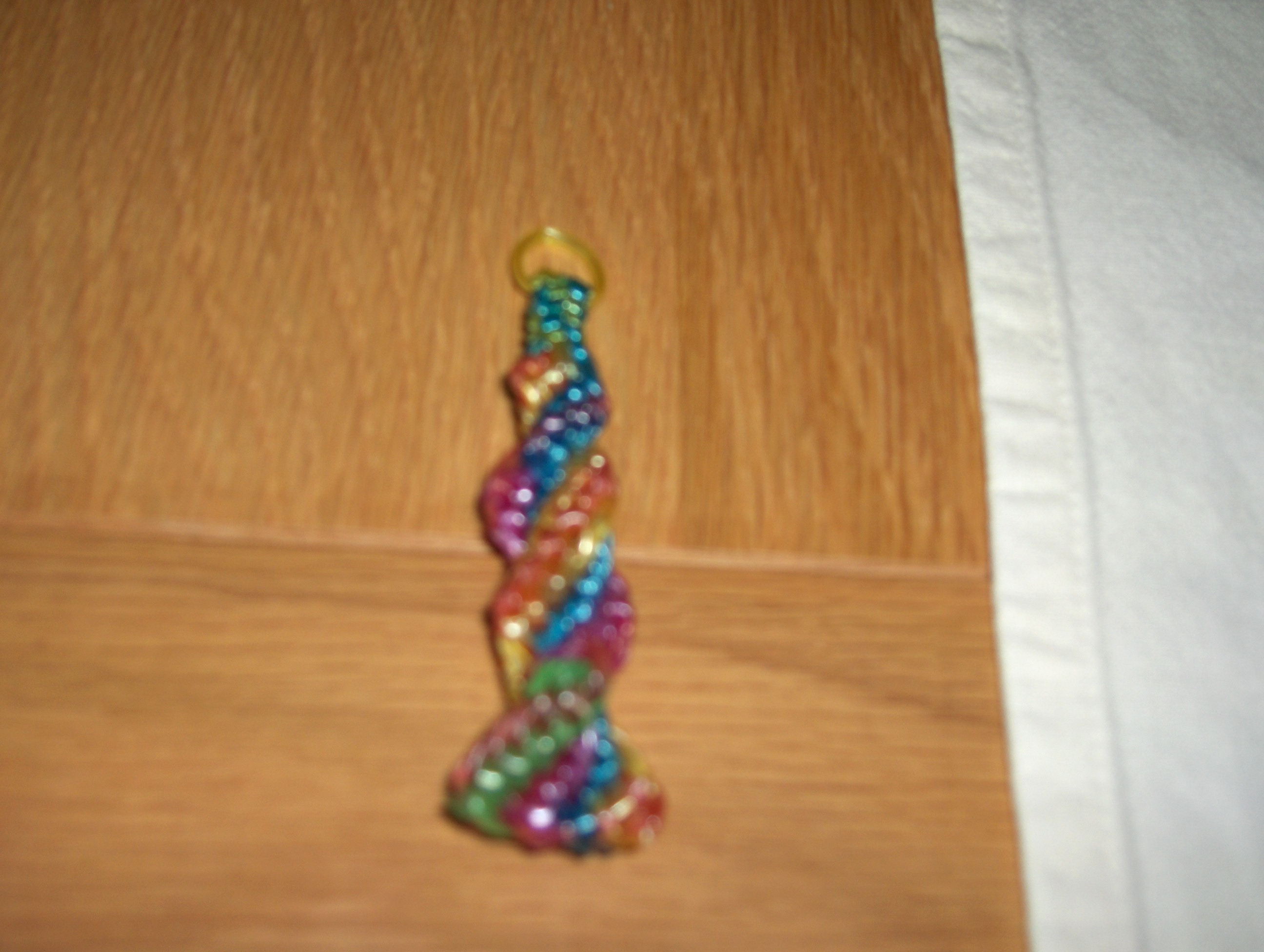 Scoubidouknot with various colors